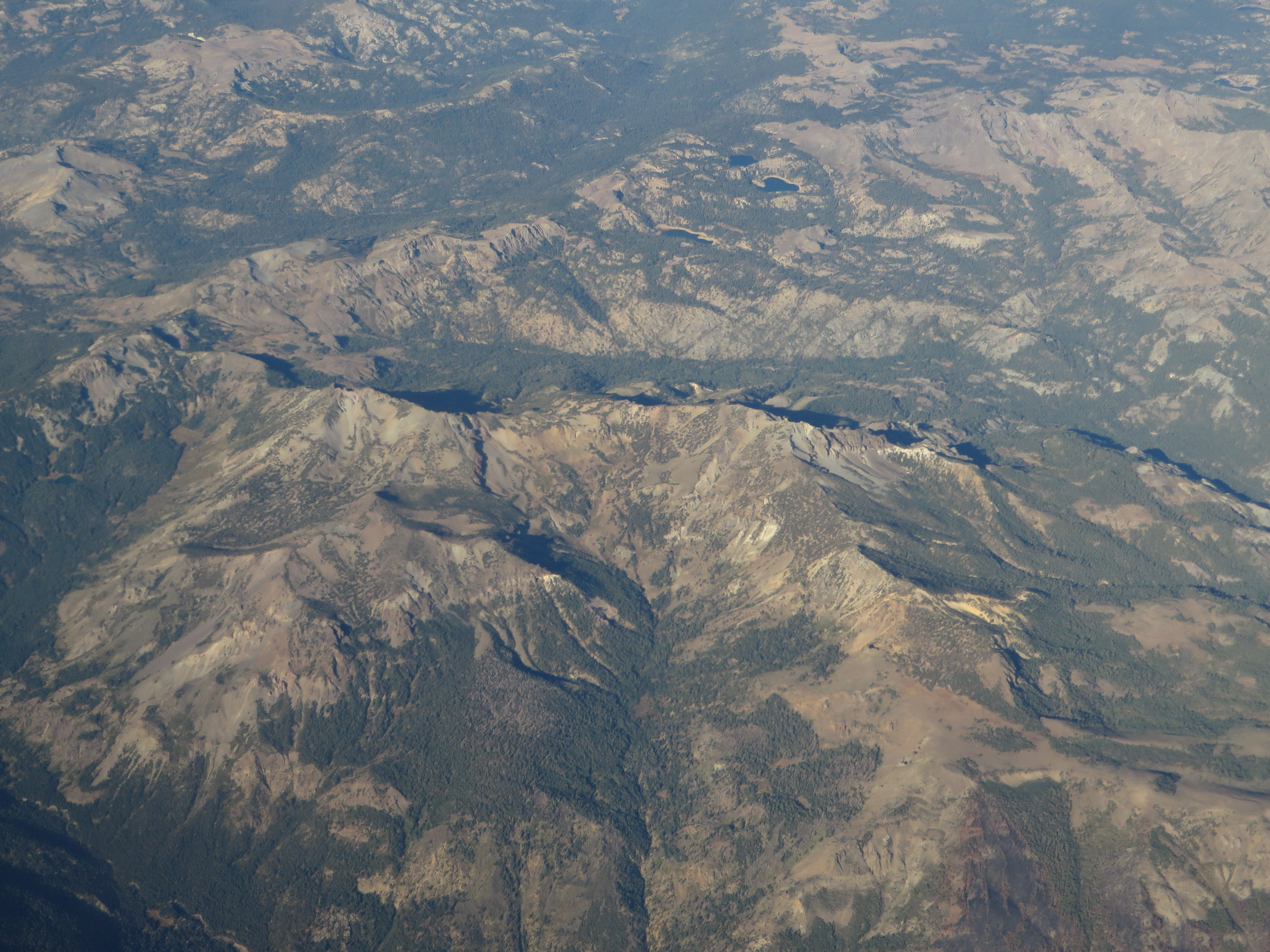 The Sierra Nevada is a mountain range in the western United States, between the Central Valley of California and the Basin and Range Province. The vast majority of the range lies in the state of California, although the Carson Range spur lies primarily in Nevada. The Sierra runs 400 miles (640 km) north-to-south, and is approximately 70 miles (110 km) across east-to-west. Notable Sierra features include Lake Tahoe, the largest alpine lake in North America; Mount Whitney at 14,505 ft (4,421 m), the highest point in the contiguous United States; and Yosemite Valley sculpted by glaciers out of one-hundred-million-year-old granite. The Sierra is home to three national parks, twenty wilderness areas, and two national monuments. These areas include Yosemite, Sequoia, and Kings Canyon National Parks; and Devils Postpile National Monument. The character of the range is shaped by its geology and ecology. More than one hundred million years ago during the Nevadan orogeny, granite formed deep underground. The range started to uplift four M.A. (million years) ago, and erosion by glaciers exposed the granite and formed the light-colored mountains and cliffs that make up the range. The uplift caused a wide range of elevations and climates in the Sierra Nevada, which are reflected by the presence of five life zones. Uplift continues due to faulting caused by tectonic forces, creating spectacular fault block escarpments along the eastern edge of the southern Sierra. The Sierra Nevada has a significant history. The California Gold Rush occurred in the western foothills from 1848 through 1855. Due to inaccessibility, the range was not fully explored until 1912.